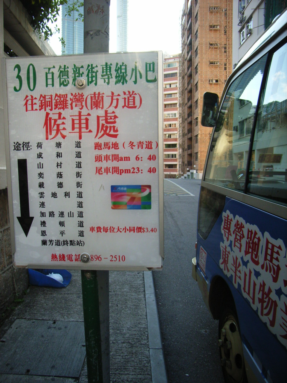 Happy Valley Minibus route no.30 冬青街 Author: BEVERLYSHEN